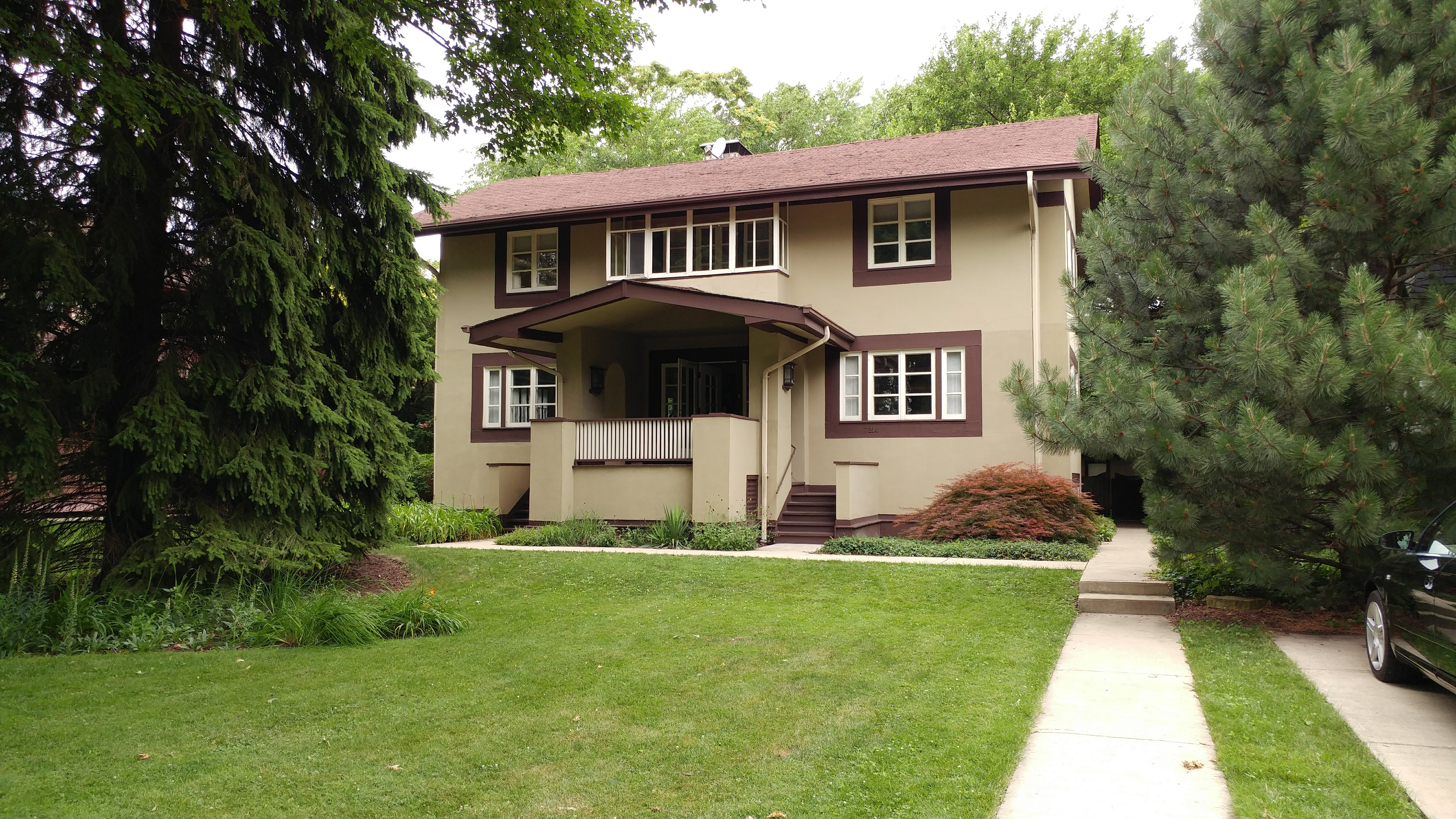 Walter Gerts House, built 1905 by architect Charles White, remodelled 1911 by Frank Lloyd Wright. River Forest, IL